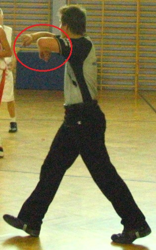 basketball